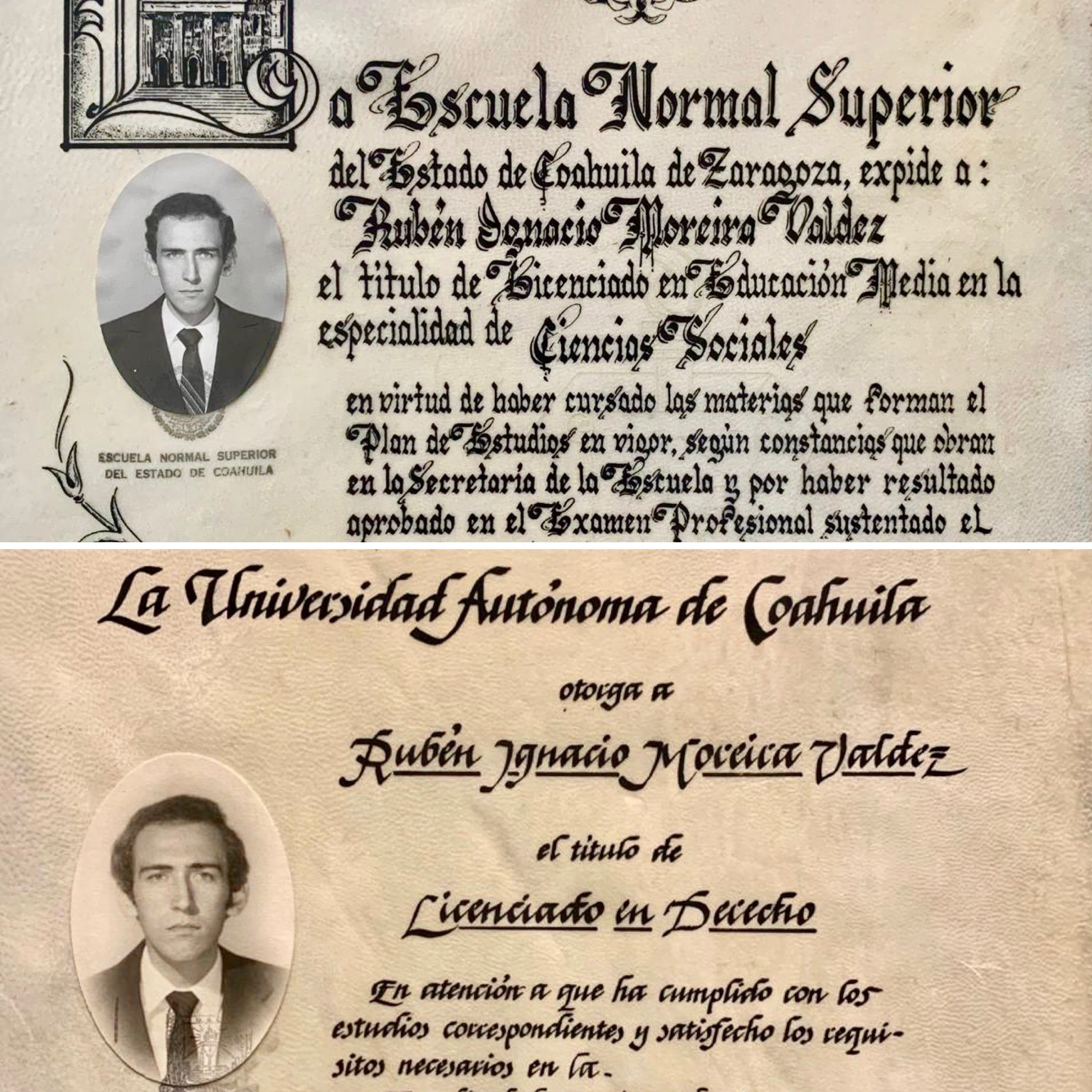 Studies